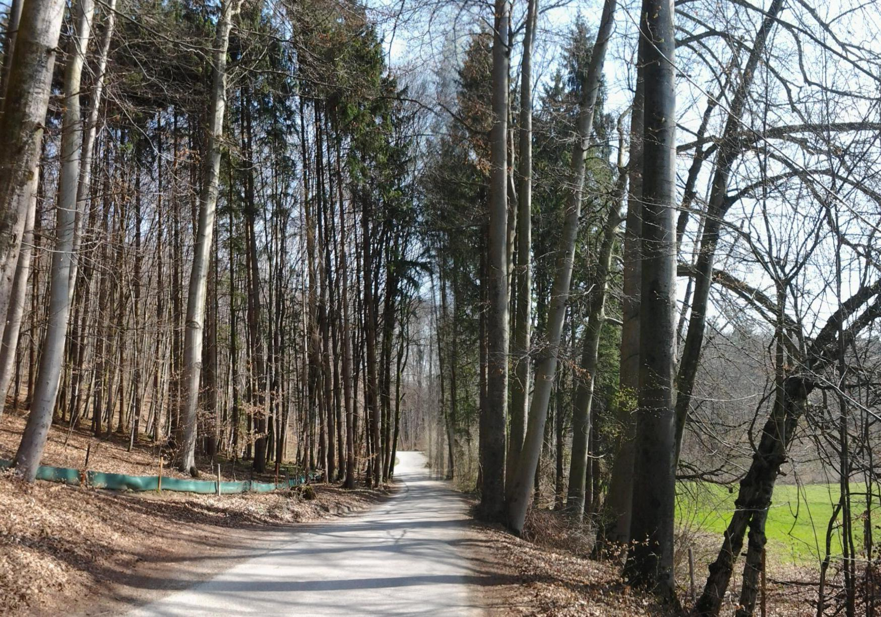 Plainwaldweg, minor road on mountain Plainberg leading from Kemating to Radeck, municipality of Bergheim, state of Salzburg, Austria